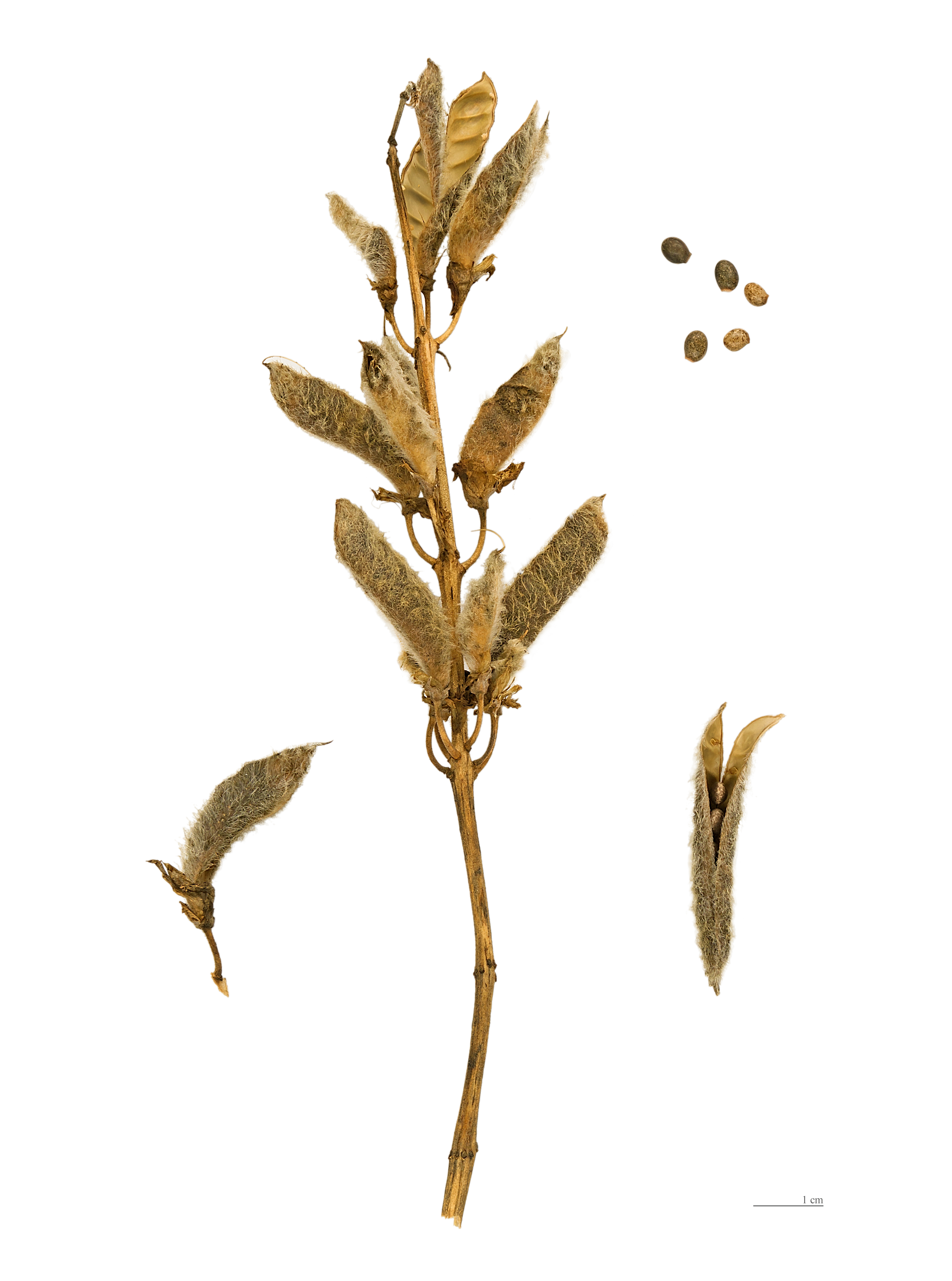 Large-leaved Lupine, Legumes and seeds